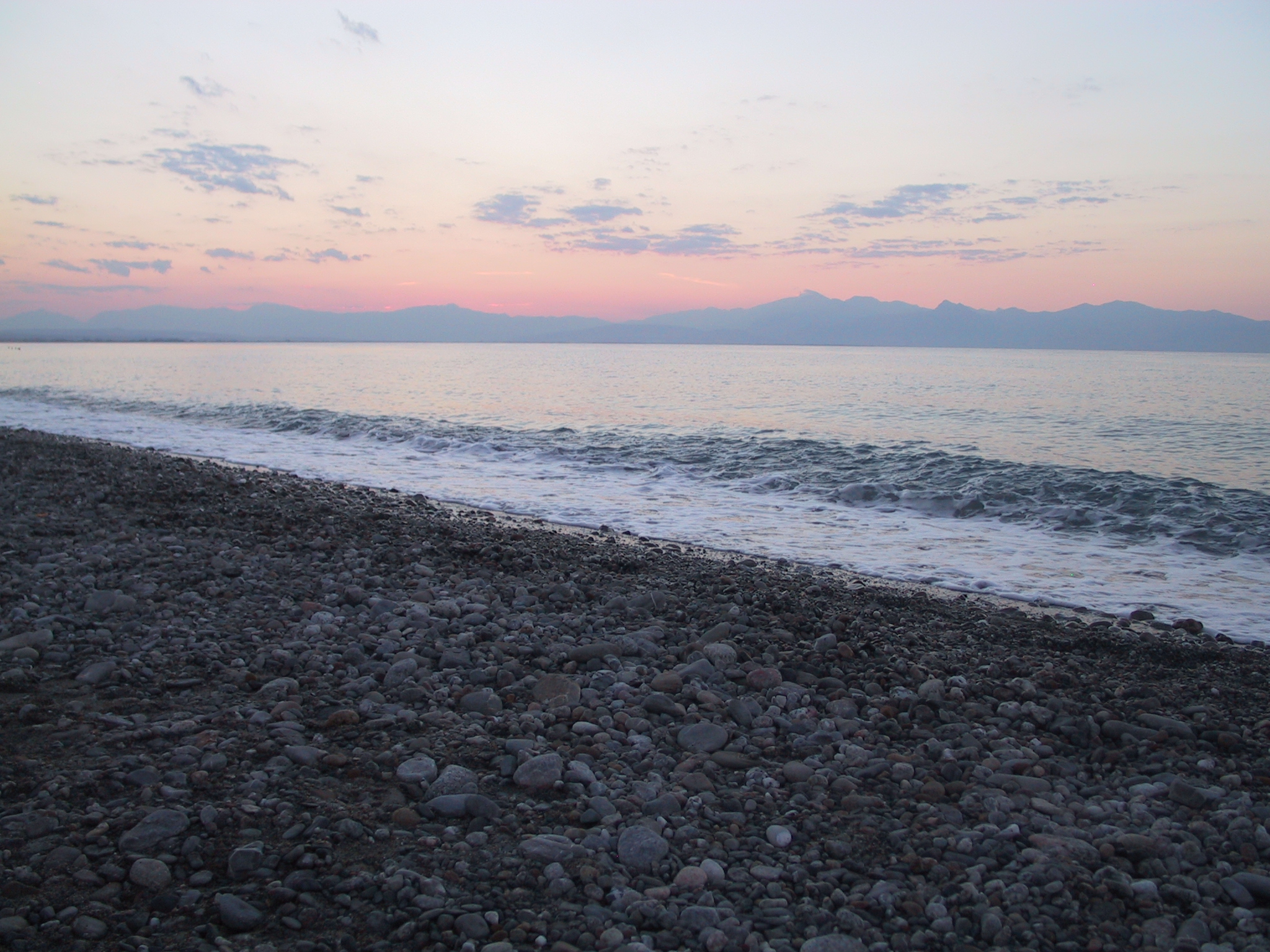 Seaside, Rossano (CS), Italy.